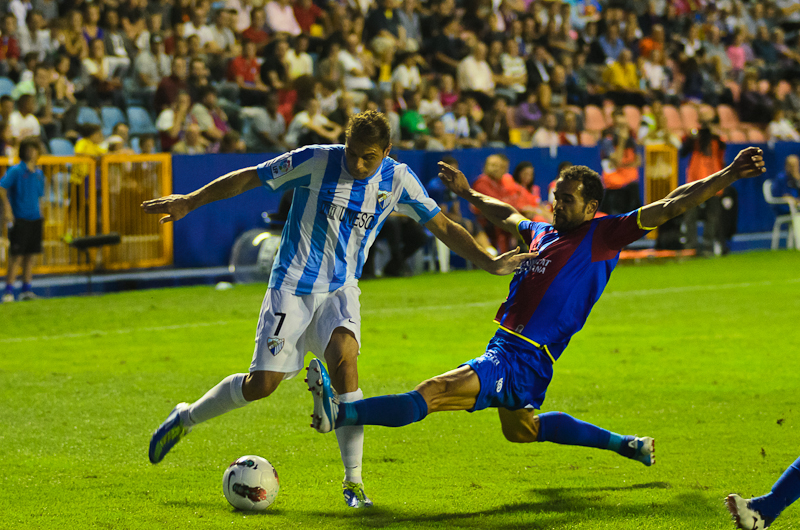 Joaquín Sánchez, Málaga C.F. and Juanfran, Llevant UE